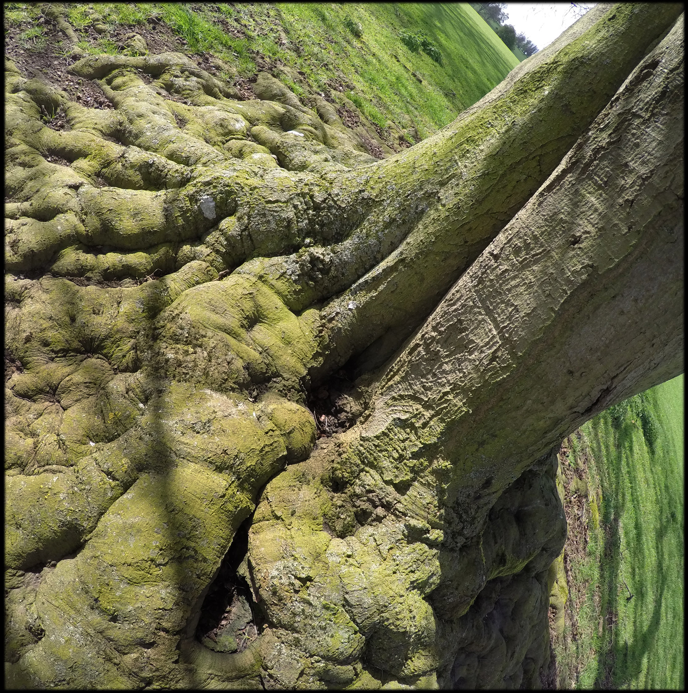 Wooded landscape of Burghley House park or its periphery. Some of the oaks in the park are declining. A means of control tested is the spreading of mulch at the foot of these trees. These landscapes are free to the public during the day.